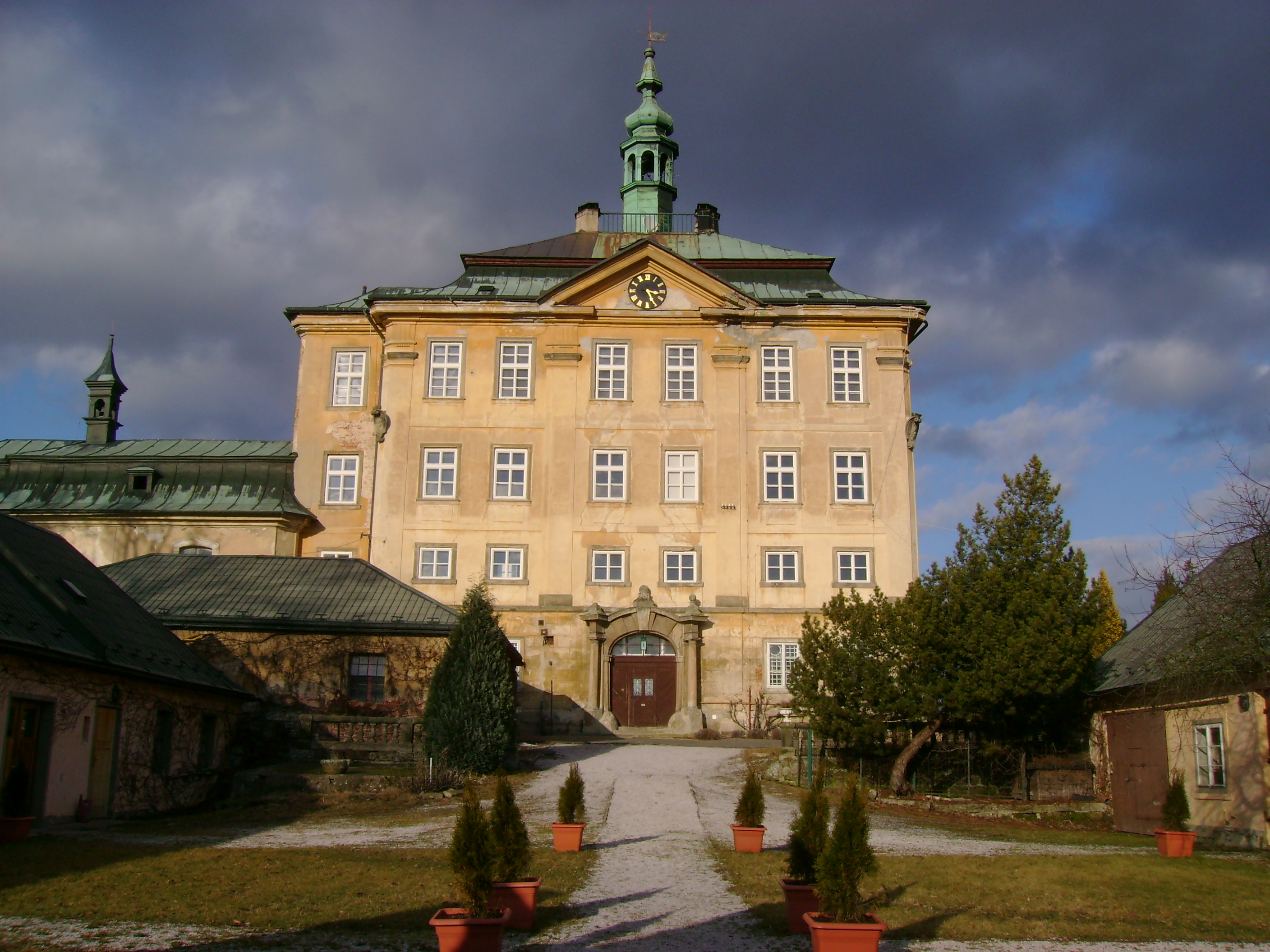 Castle in Jičíněves, Jičín District, the Czech Republic. Česky: Zámek, čp. 1, Jičíněves, okres Jičín.